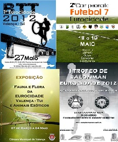 Eurocity events